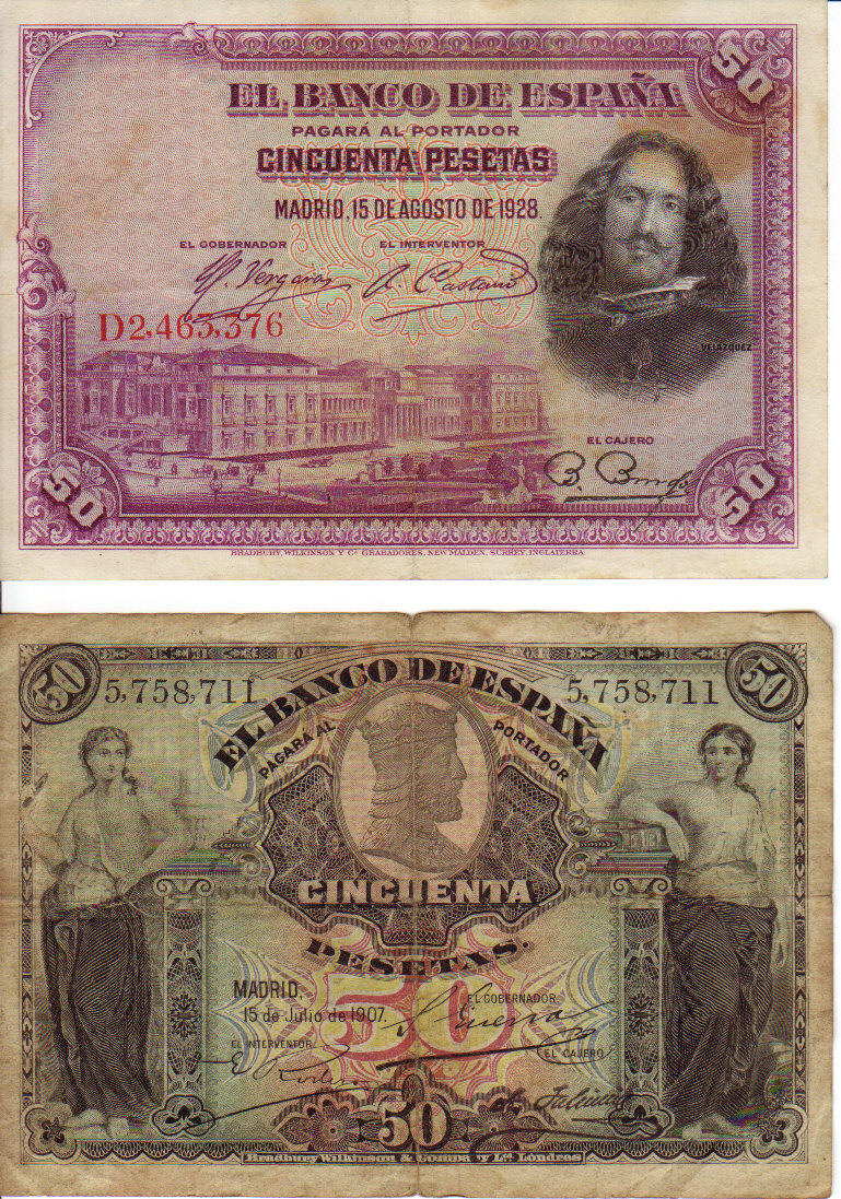 Spanish monarchic pre-war bank note 50 peseta, two patterns, observe Scan from own collection